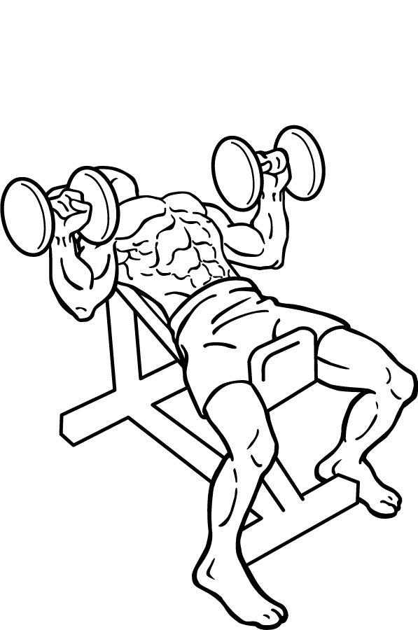 an exercise of chest